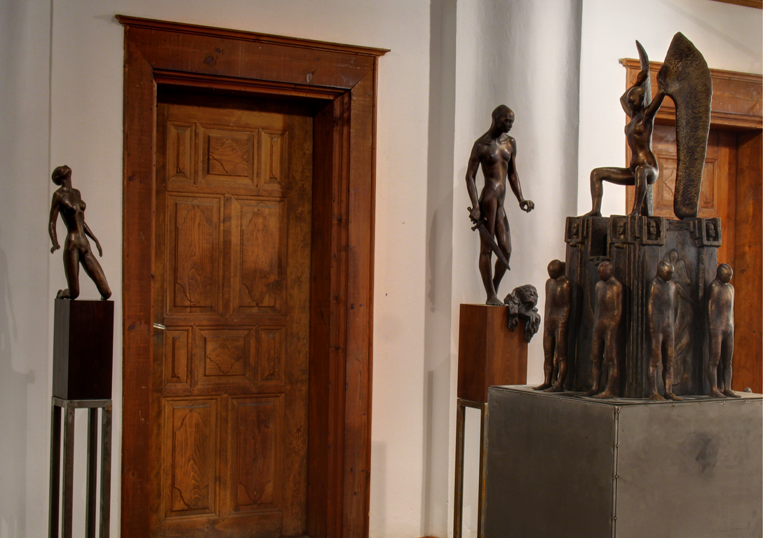 "Извън времето" - галерия "Възраждане", Пловдив, 2012